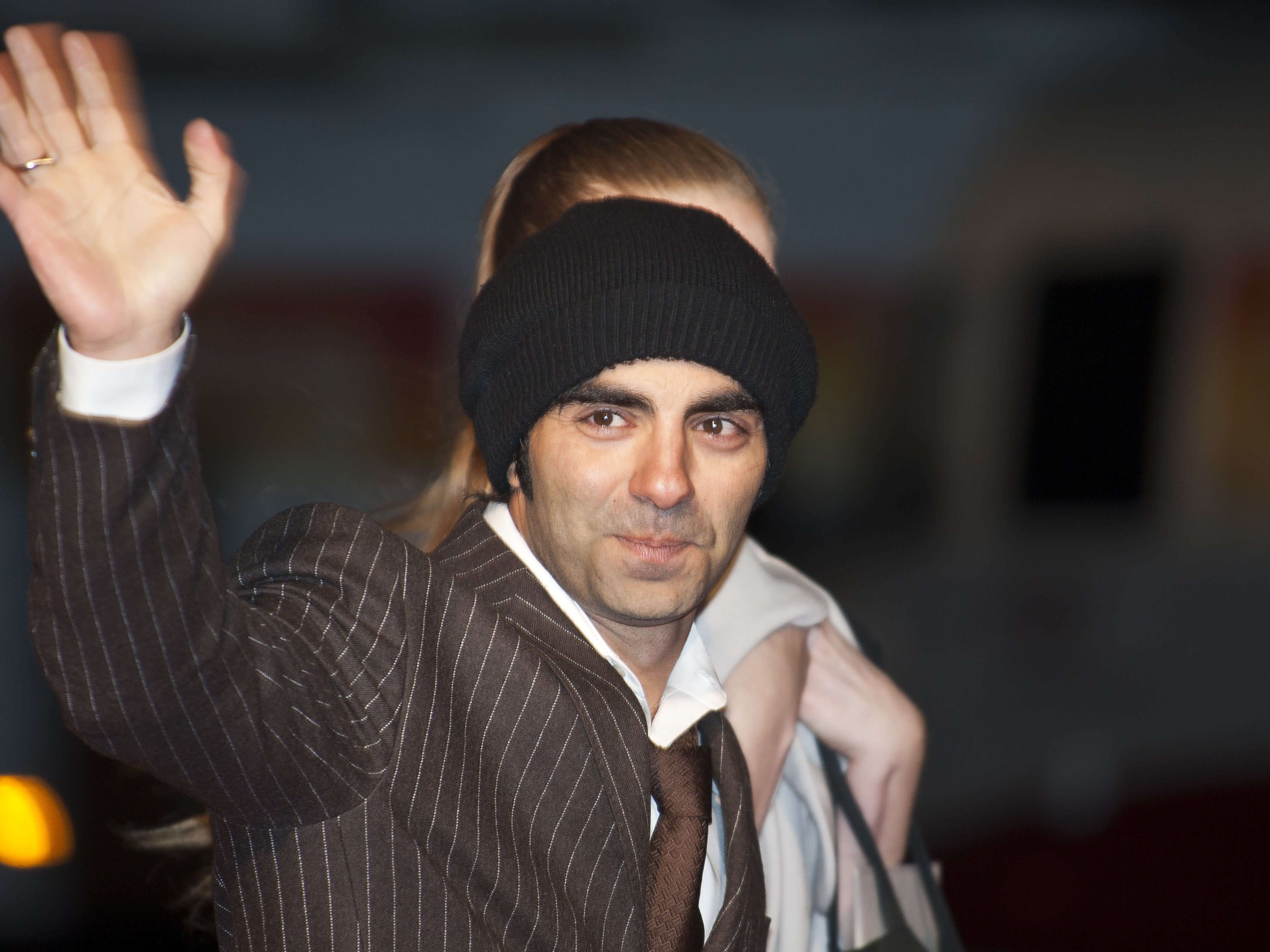 Fatih Akin at the Cinema for Peace gala. He's a German-born film director of Turkish descent.